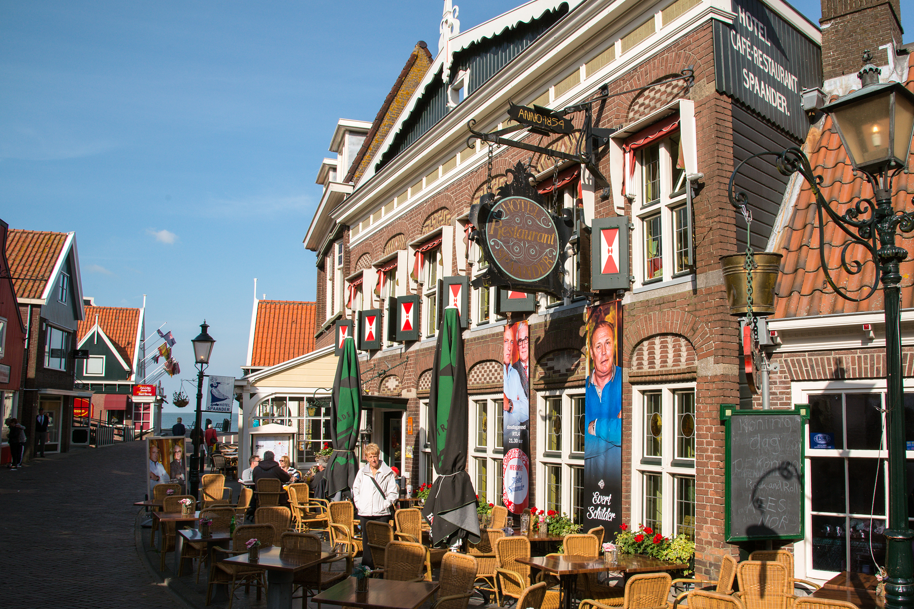 Many tourists visit Volendam on tour boats